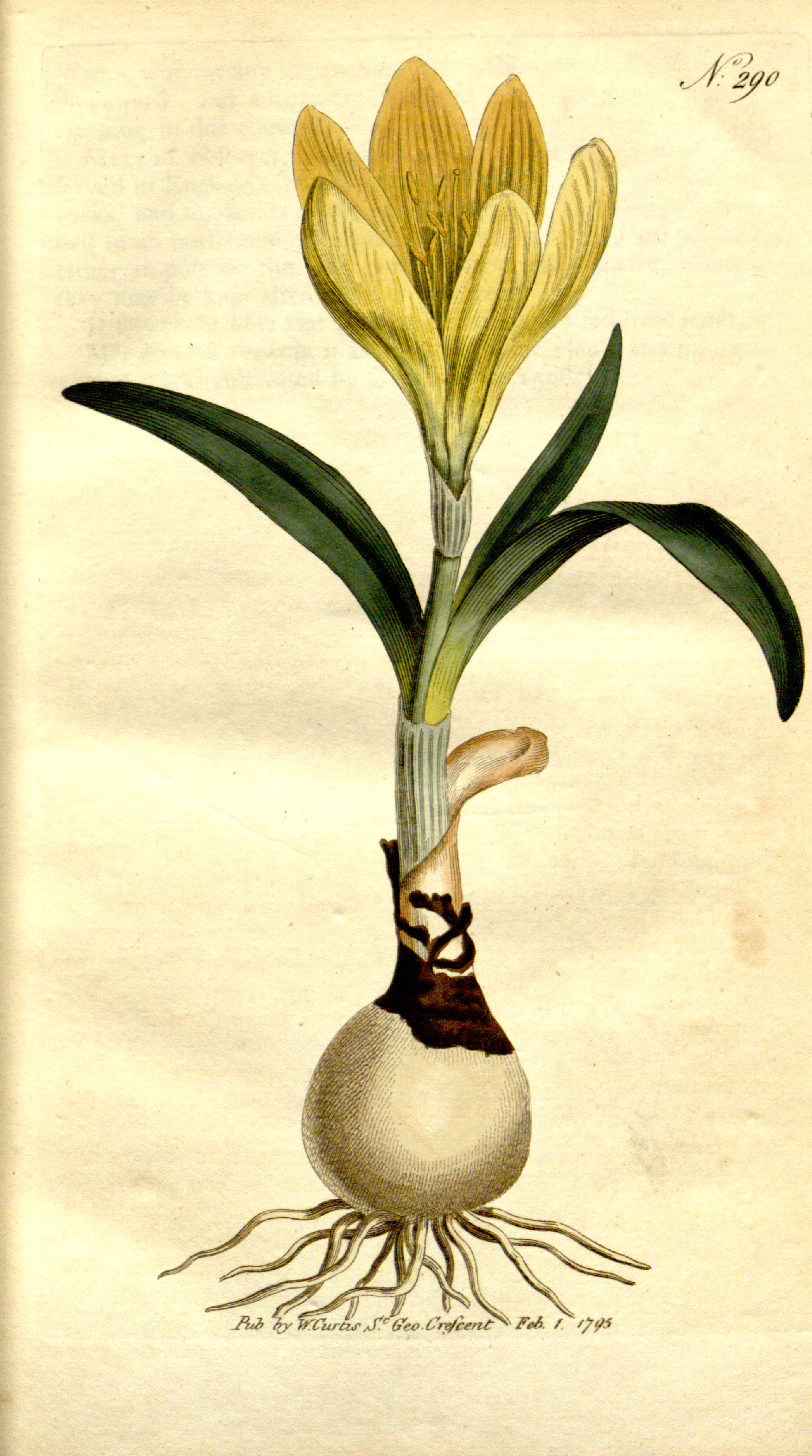 This is a plate from The Botanical Magazine, Volume 9.